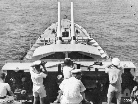 AWM Description: ABOARD H.M.A.S. NIZAM. FROM THE BRIDGE - FROM THIS COMMANDING POSITION ORDERS ARE TRANSMITTED IN A SECOND TO ANY PART OF THE SHIP. Comment : The guns are QF 4.7 inch Mk XII.